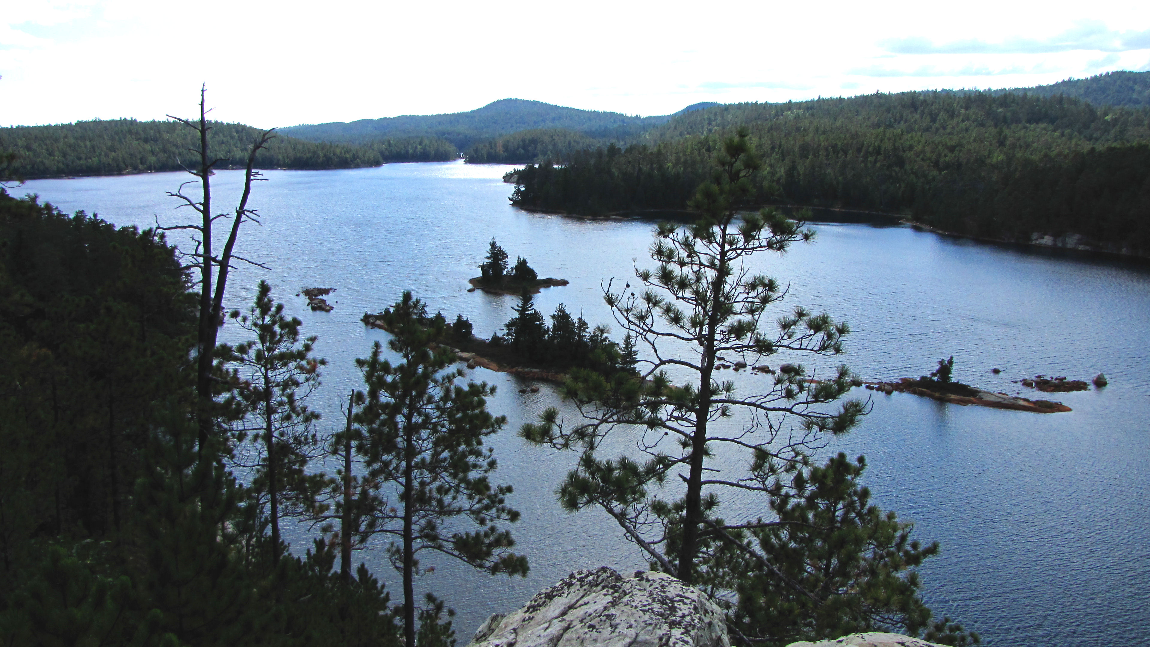 Wolf Lake, Chiniguichi Waterway Provincial Park, Ontario